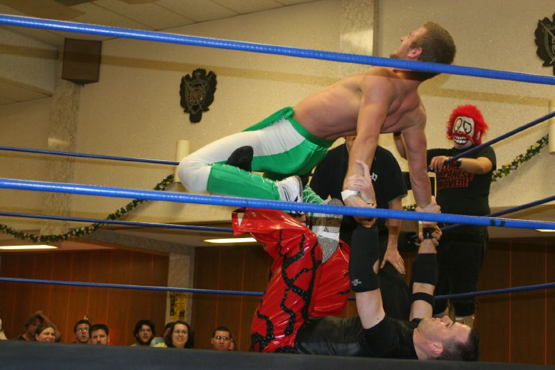 Professional wrestler Mike Quackenbush (real name Michael Spillane) performing the Mexican Surfboard hold on another wrestler at Chikara's Young Lions Cup Night Two show in June 2008.